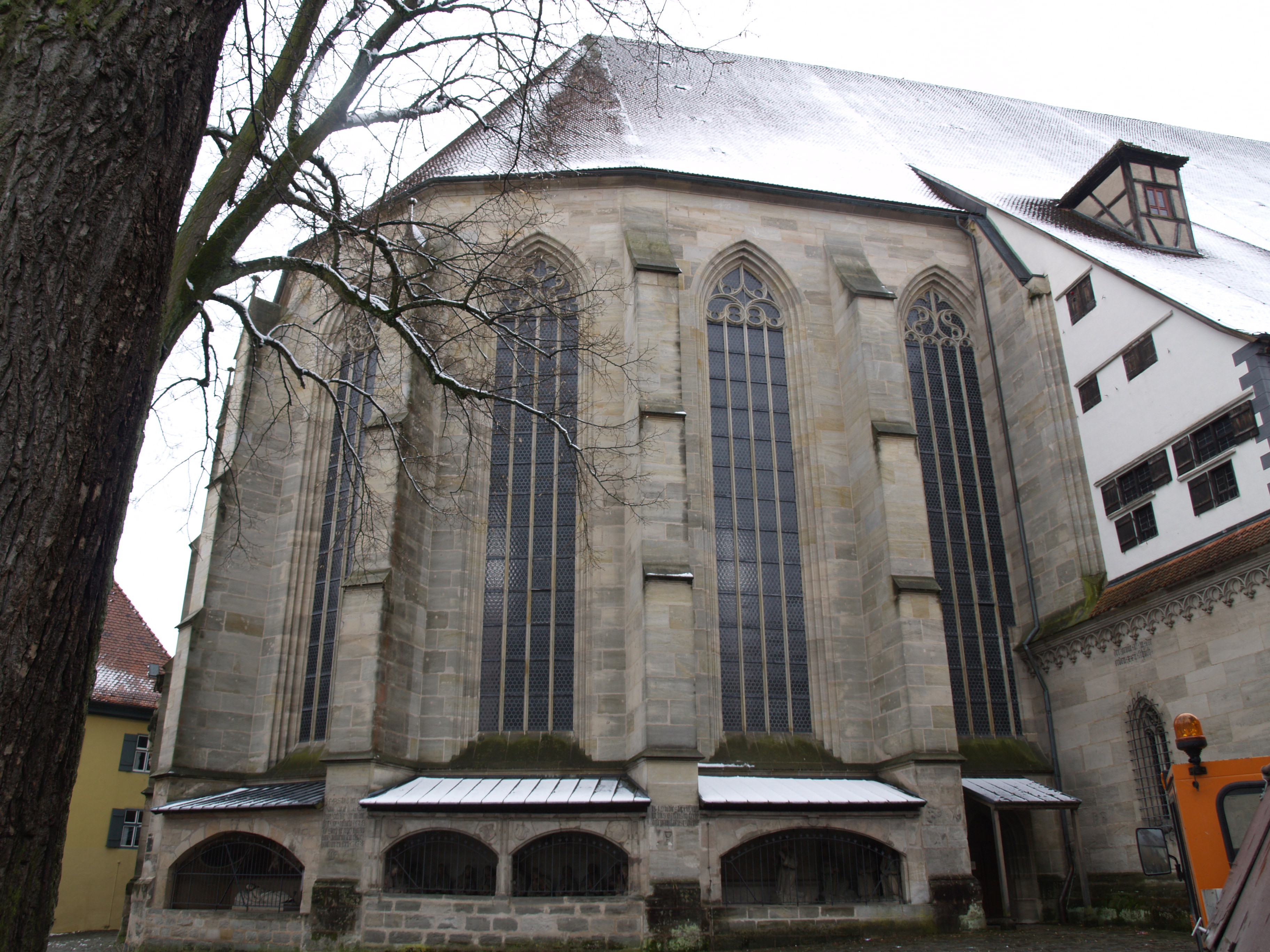 Exterior view of the choir and registry of St. Georg Dinkelsbühl